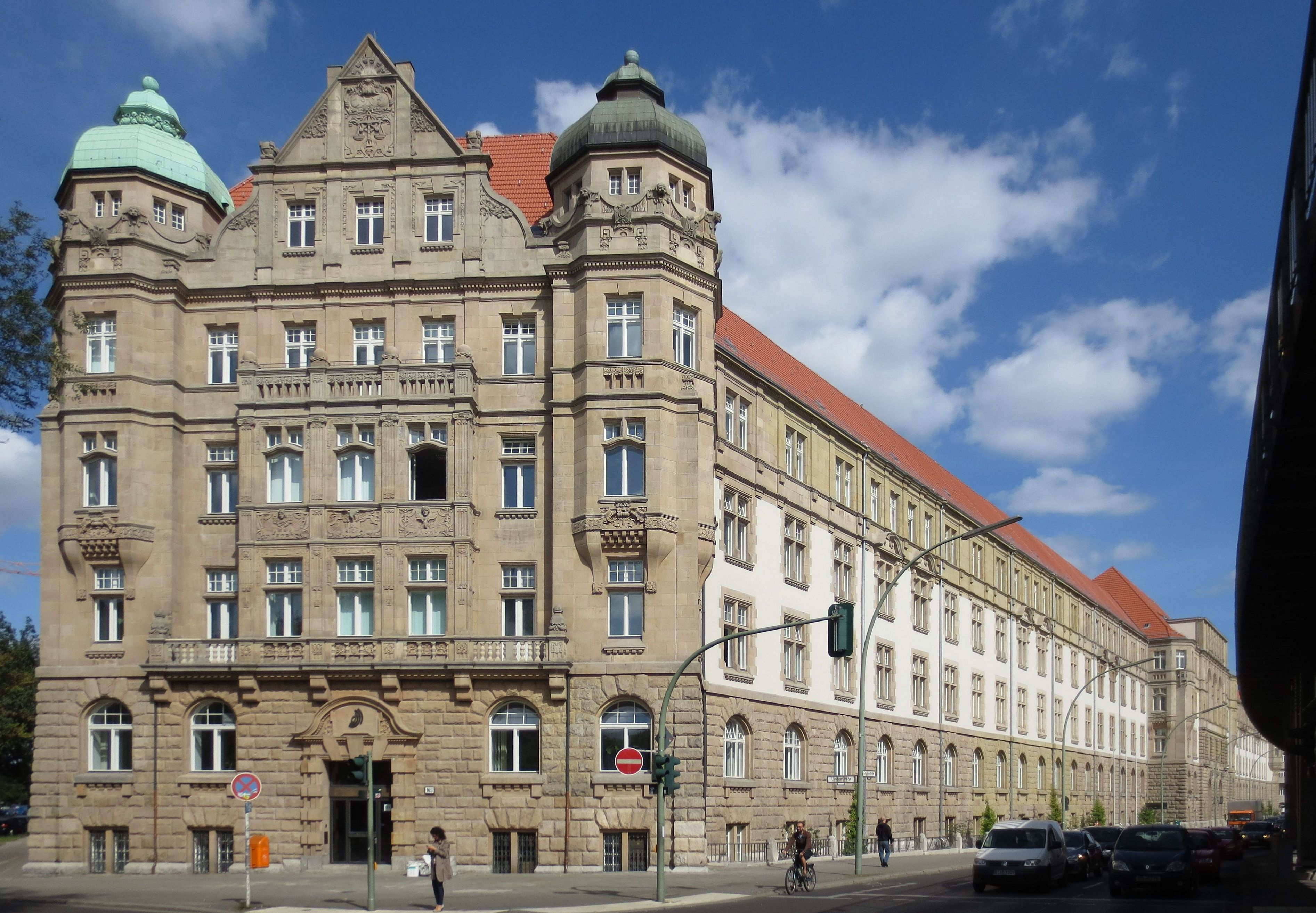 The former Imperial Patent Office or Reich Patent Office at Gitschiner Straße No. 97-103, corner of Alte Jakobstraße (on the left), in Berlin-Kreuzberg, now seat of the Berlin branches of the German Patent and Trade Mark Office and of the European Patent Office. The large complex, which has another facade on Alexandrinenstraße, was built from 1903 to 1905 to a design by the architects Solf and Wichards. It has been designated as a cultural heritage monument.